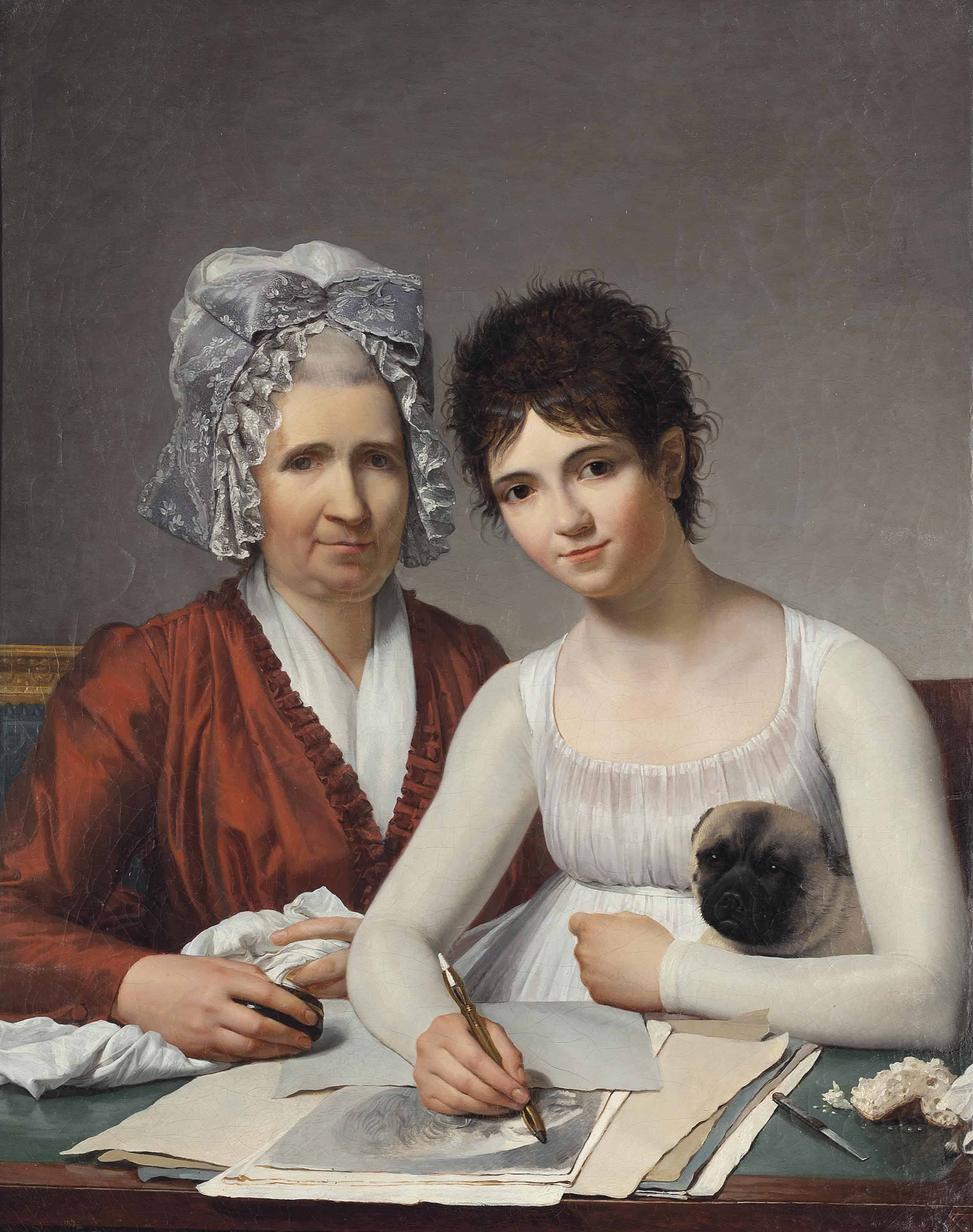 Victor Maximilien Potain, Portrait of Marie-Adrienne Rousseau (born c.1754), née Potain, the artist's sister, half-length, in a red dress with a lace cap, with her daughter Rose-Marie Charlotte (born c.1785), in a white dress, a pug on her lap, drawing at a desk. Marie-Adrienne Potain is the artist’s sister and wife of architect Pierre Rousseau (1751-1829), the young lady, Rose-Marie-Charlotte, is their daughter. Rousseau was a pupil of the architect Nicolas-Marie Potain (1723-1790), the artist’s father, who was prominent in his day. He was among the principal assistants of King Louis XV’s chief architect Ange-Jacques Gabriel (1698-1782).